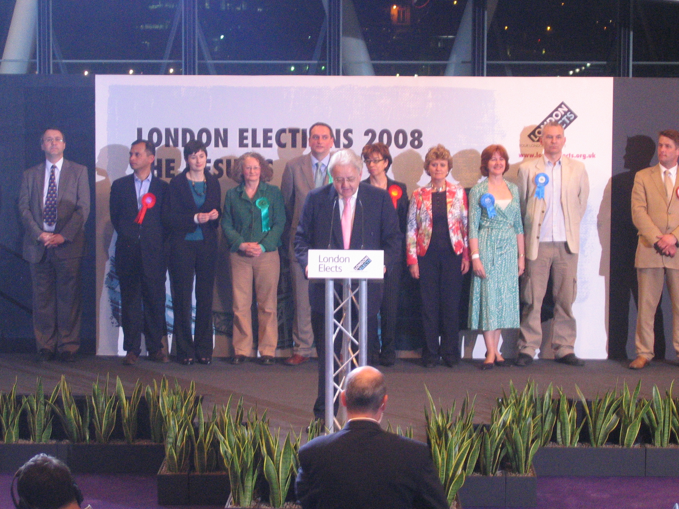 London Elections 2008, City Hall. London Assembly winning candidates.